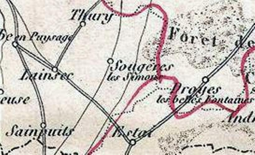 This is a fascinating 1852 map of the French department of L'Yonne, France. L'Yonne is of France's premier Burgundy wine region and produces some of the worlds finest reds. Yonne is also one of only two departments that produce Chaource cheese. Chaource is a cow's milk cheese, cylindrical in shape. The central pâte is soft, creamy in color, and slightly crumbly, and is surrounded by a white penicillium candidum rind. The whole map is surrounded by elaborate decorative engravings designed to illustrate both the natural beauty and trade richness of the land. There is a short textual history of the regions depicted on both the left and right sides of the map. Published by V. Levasseur in the 1852 edition of his Atlas National de la France Illustree.